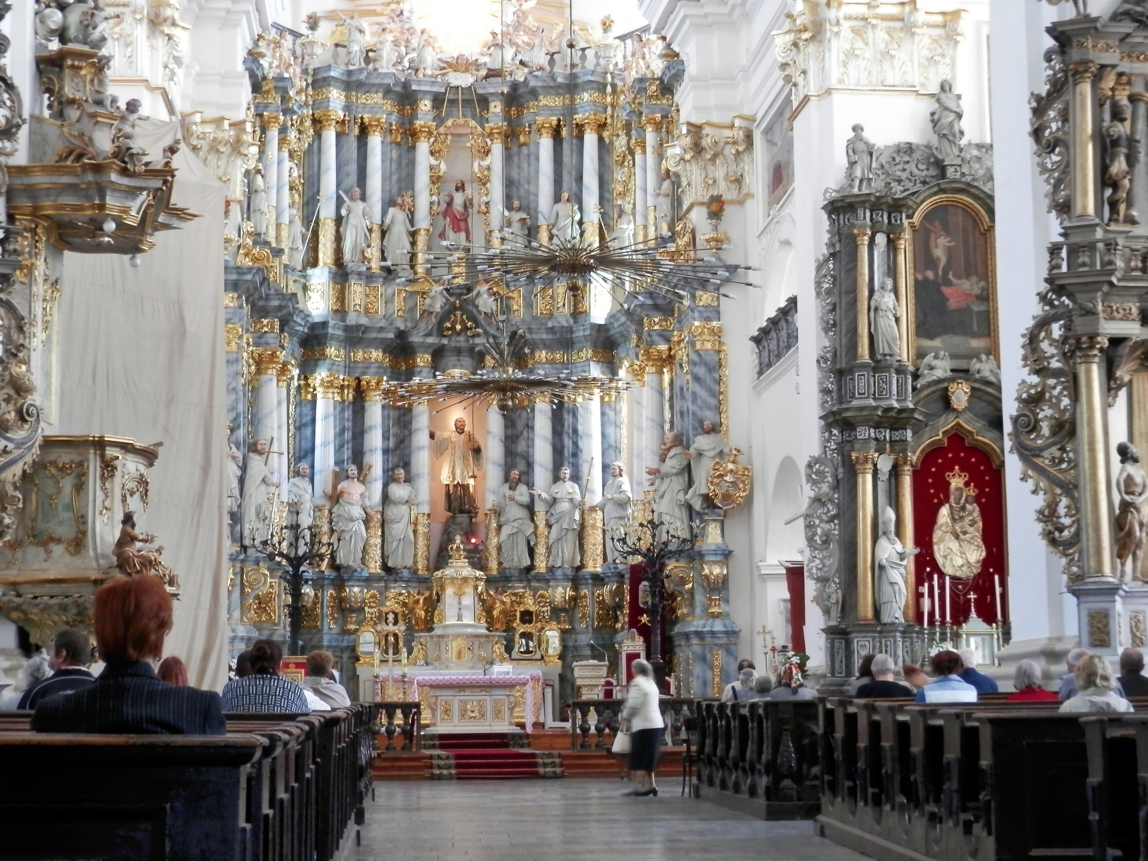 St. Francis Xavier Cathedral, Grodno